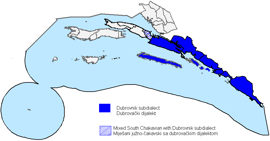 Self-made map of Župa Dubrovačka municipality within Dubrovnik-Neretva County. Category:Croatia county maps